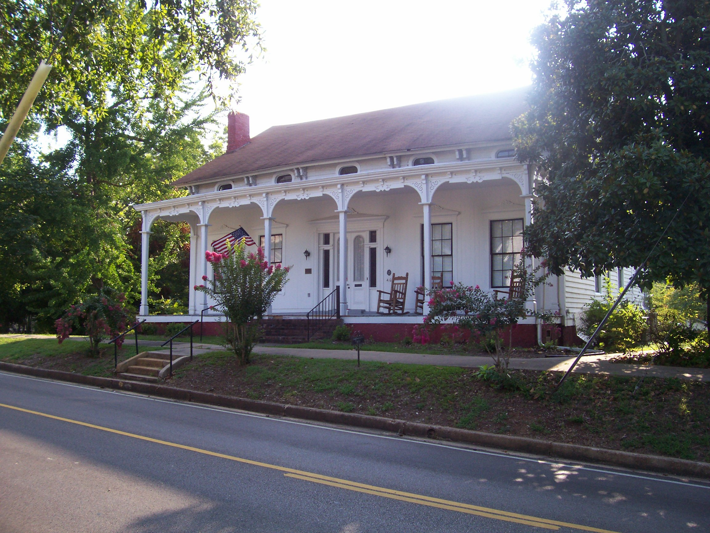 Located in Aberdeen, Mississippi, Gregg-Hamilton, built in 1850, was home to Mary Frances "Molly" Garth Gregg, widow of Civil War General John Gregg, CSA and prolific Mississippi author Charles Granville Hamilton. After General Gregg was lost defending Richmond in October of 1864, Molly traveled for many weeks to Richmond to retrieve her husband's remains. After an arduous journey to Mississippi, she buried him in Aberdeen, where her father had substantial land holdings. She purchased Gregg-Hamilton to be close to him. More than a century later, Dr. Hamilton wrote the majority of his poetry and books at Gregg-Hamilton including "Mississippi I Love You", "You Can't Steal First Base" and his epic civil war poem "The Flag was Flame".